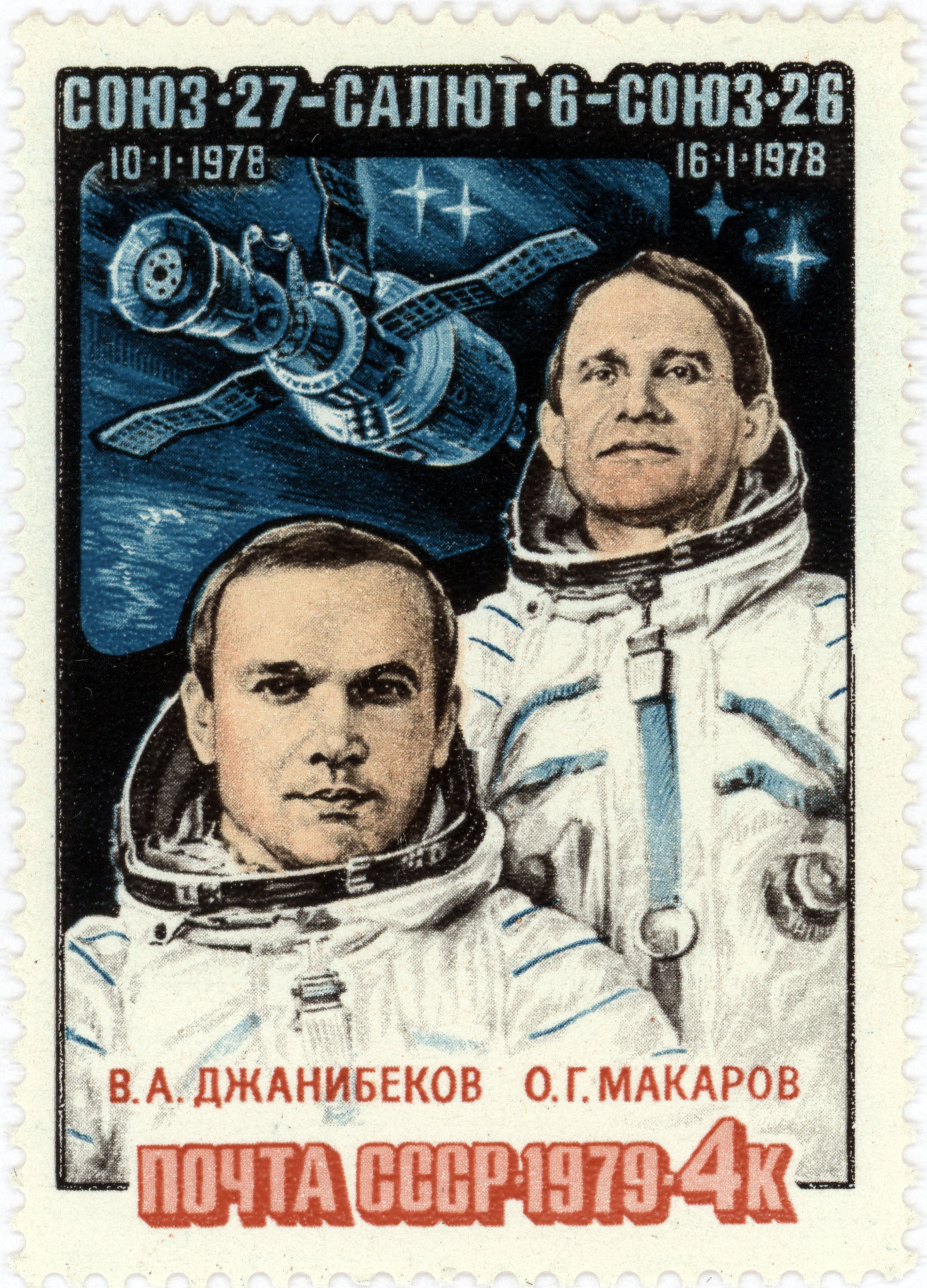 USSR stamp, "Soyuz-27", 1979, 4k.